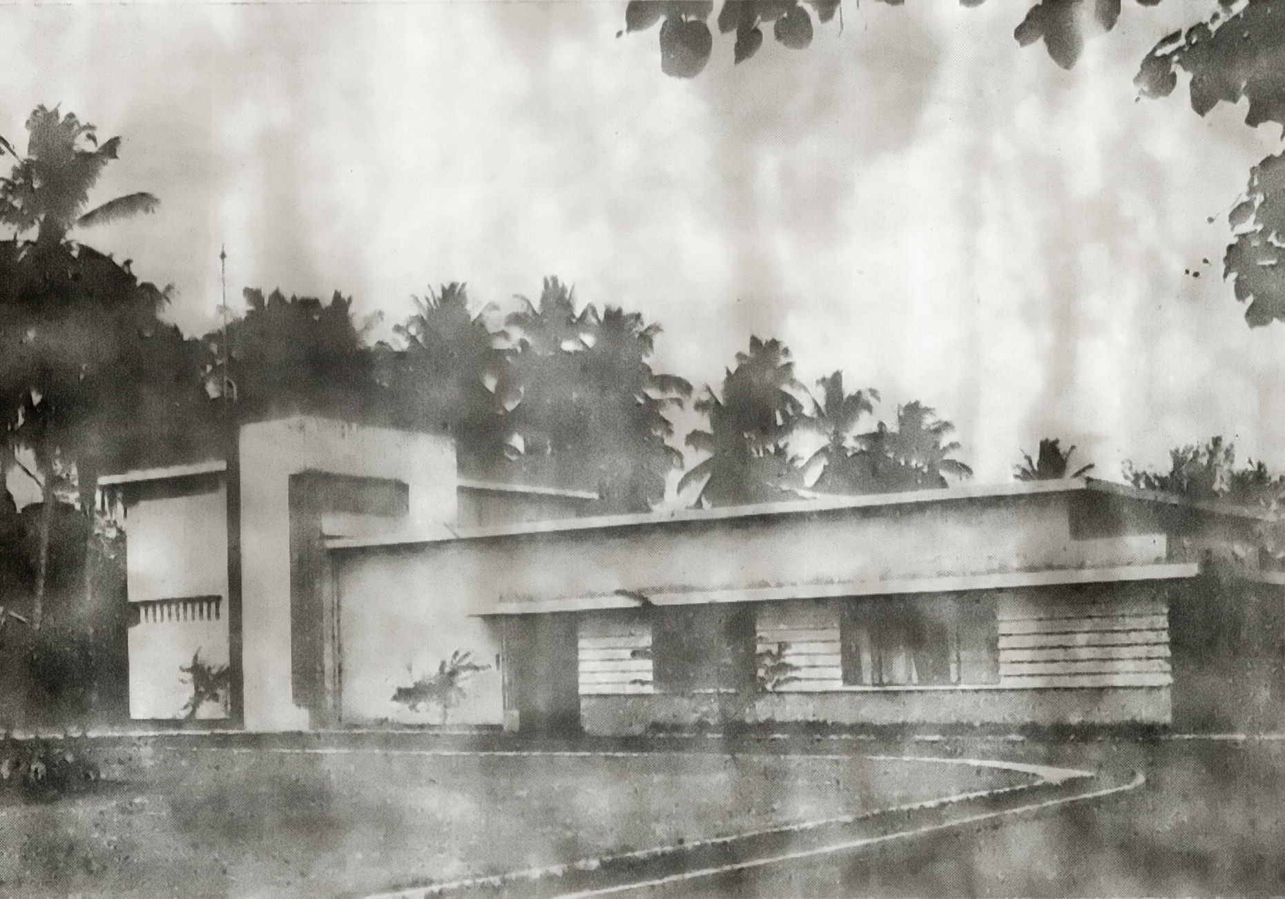 The studios of the Algemeen Nederlandsch Indisch Filmsyndicaat (ANIF), rented by Oriental Film, in 1940